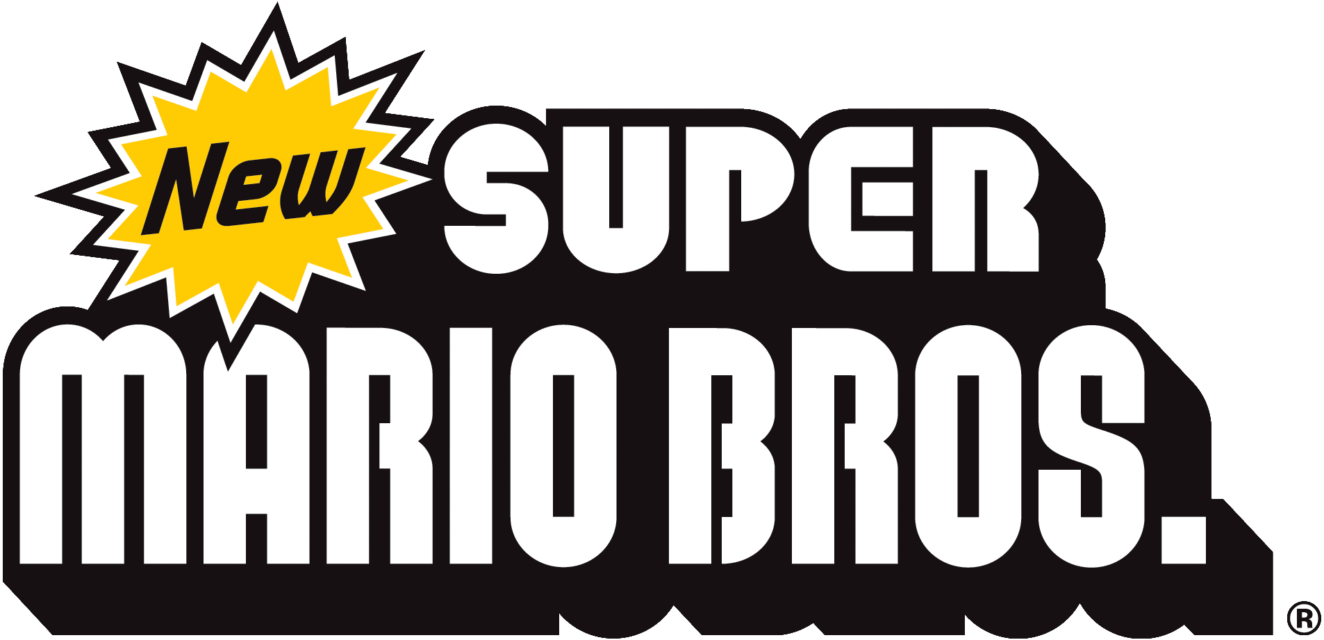 New Super Mario Bros. logo